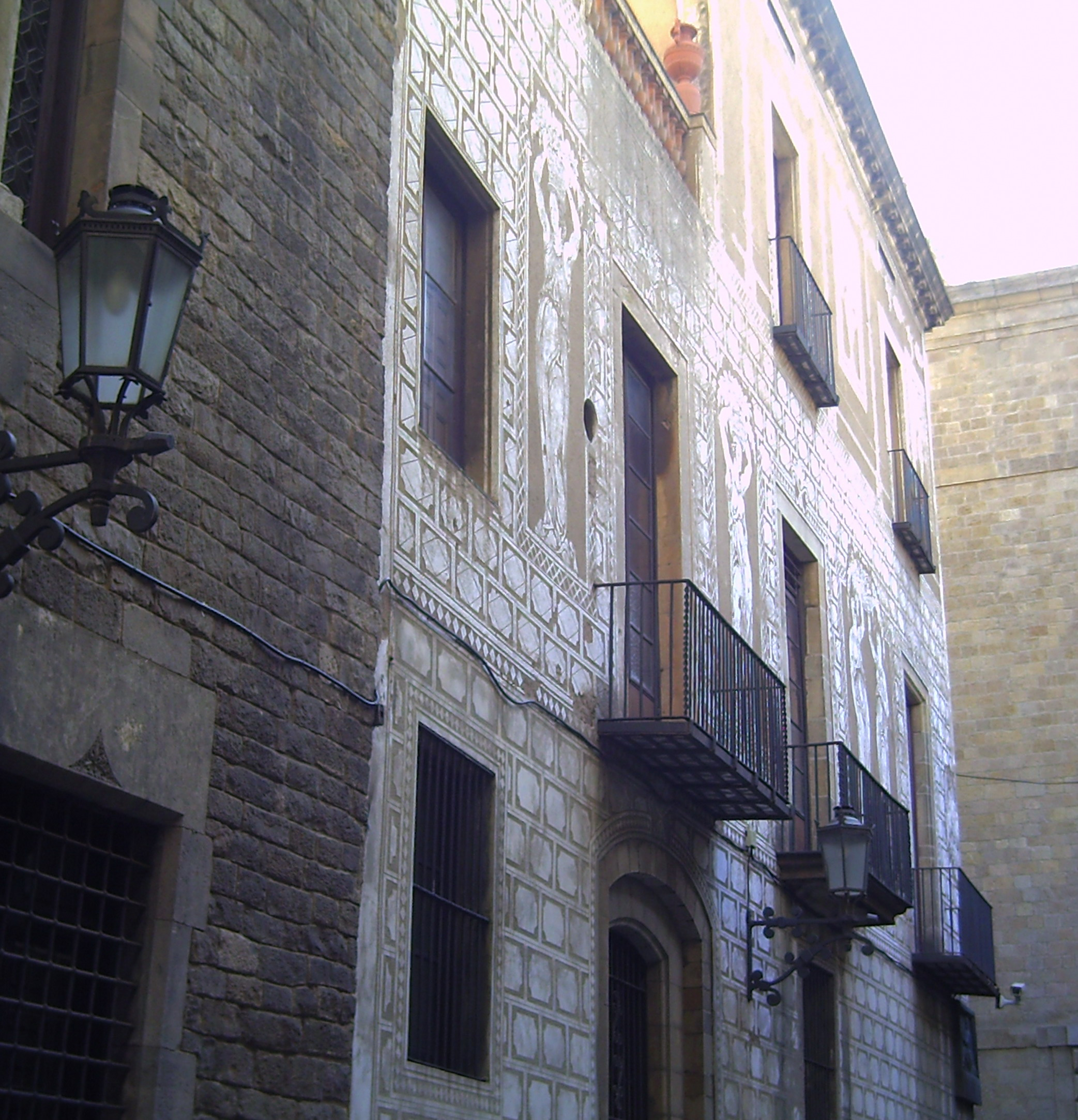 Cases dels Canonges, Barcelona.